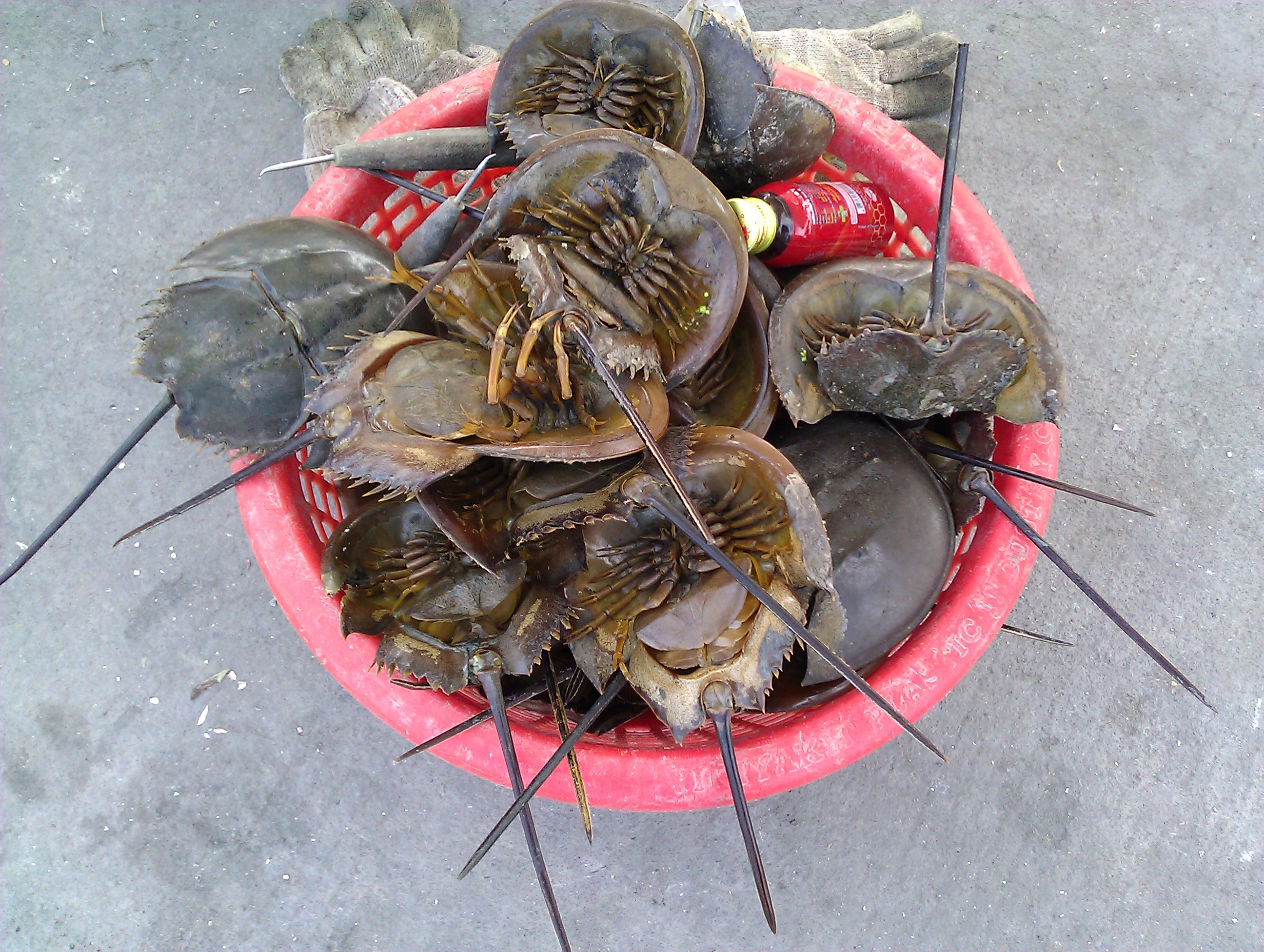 Mangrove horseshoe crab (Carcinoscorpius rotundicauda). Chonburi, Thailand.